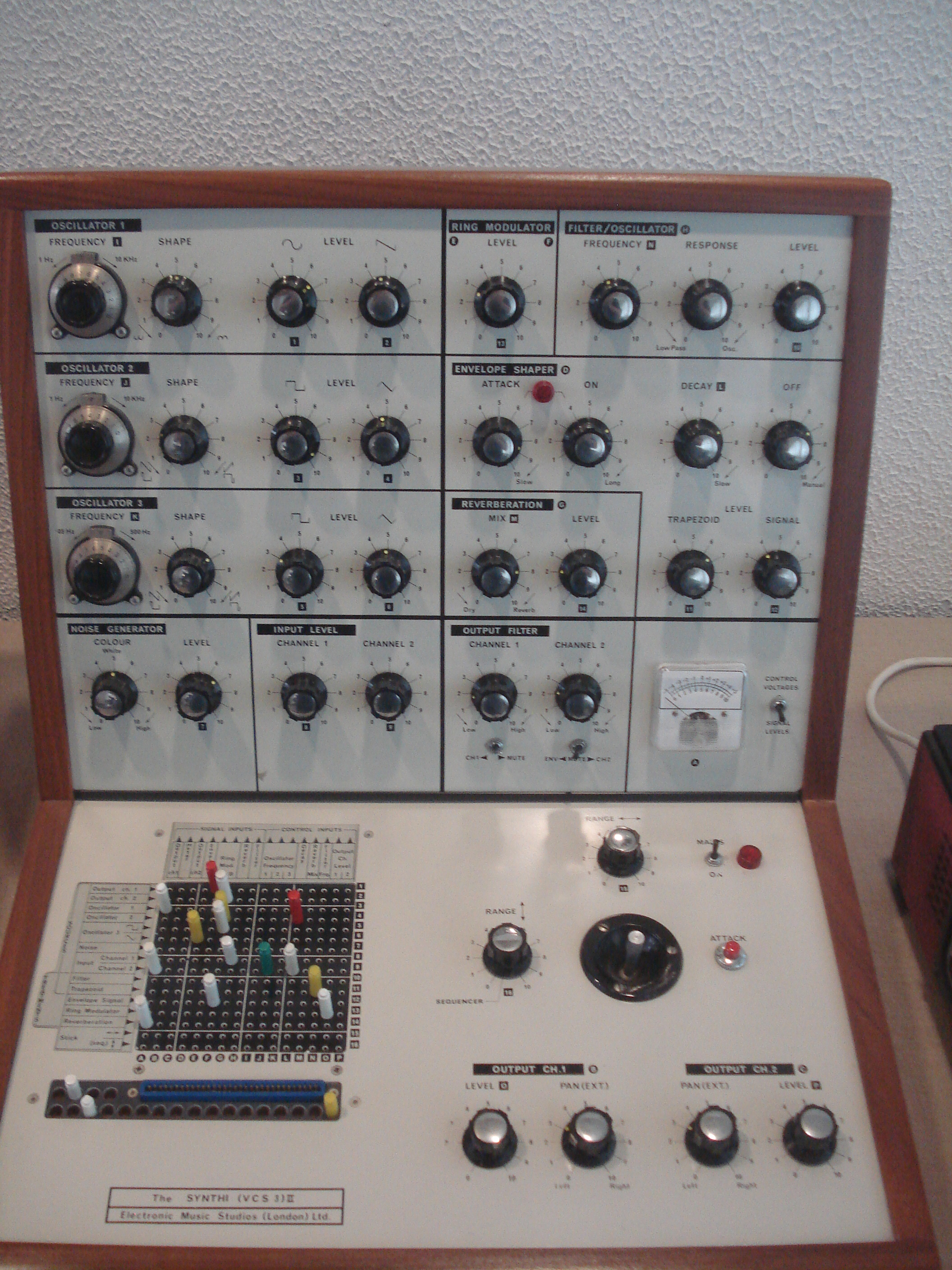 EMS Synthi VCS3 II (1973) at the Berlin Musical Instrument Museum “Presto-patch added, matrix layout and some circuitry changed ” [1] References ↑ Graham Hinton (Last updated: 17 June 2001). [ A Guide to the EMS Product Range 1969 to 1979]. Electronic Music Studios Home Page.